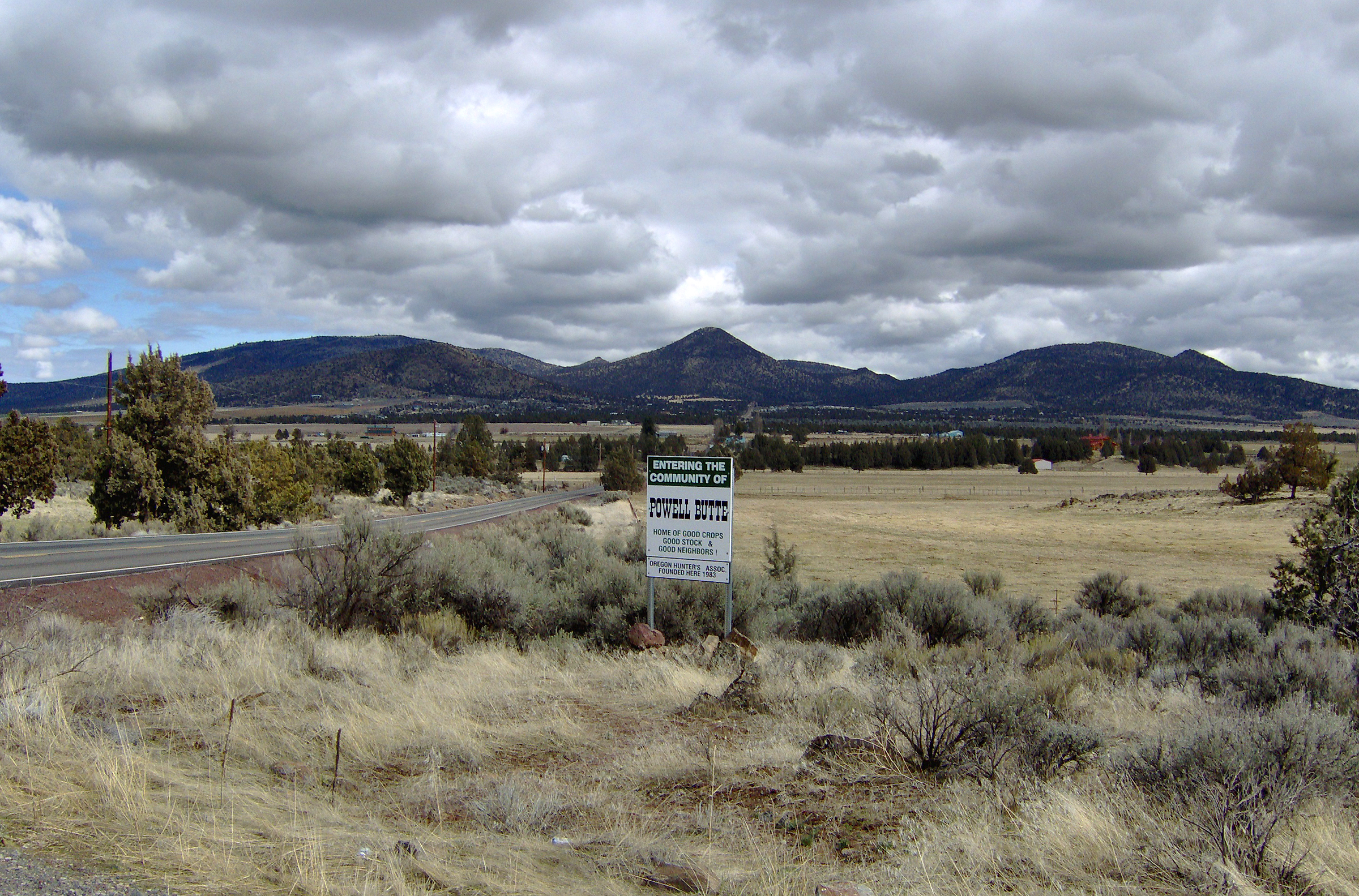 View is looking east to the Powell Buttes from the Powell Butte Highway near milepost 6.